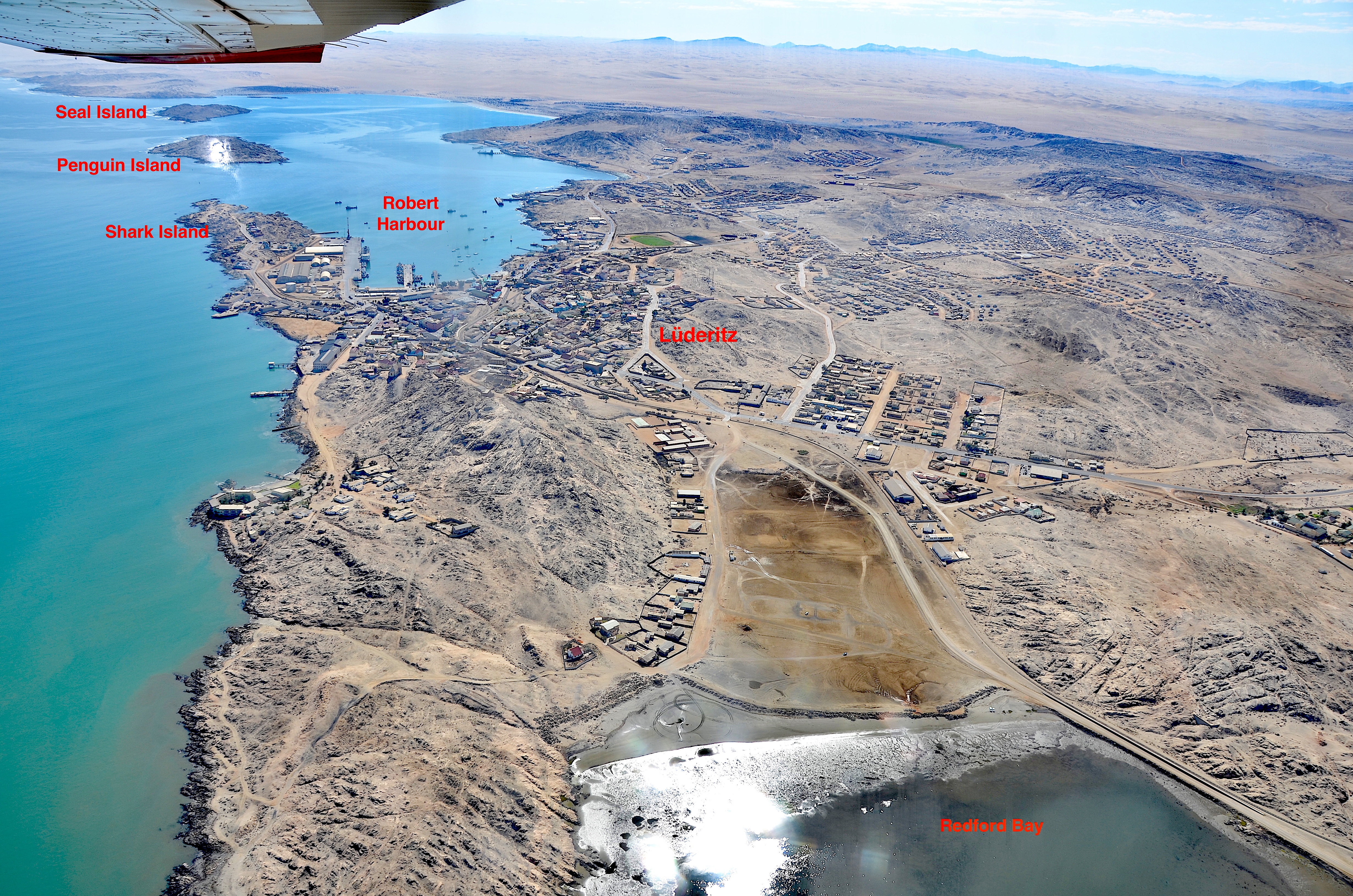 Robert Harbour, Redford Bay and Isles of Lüderitz